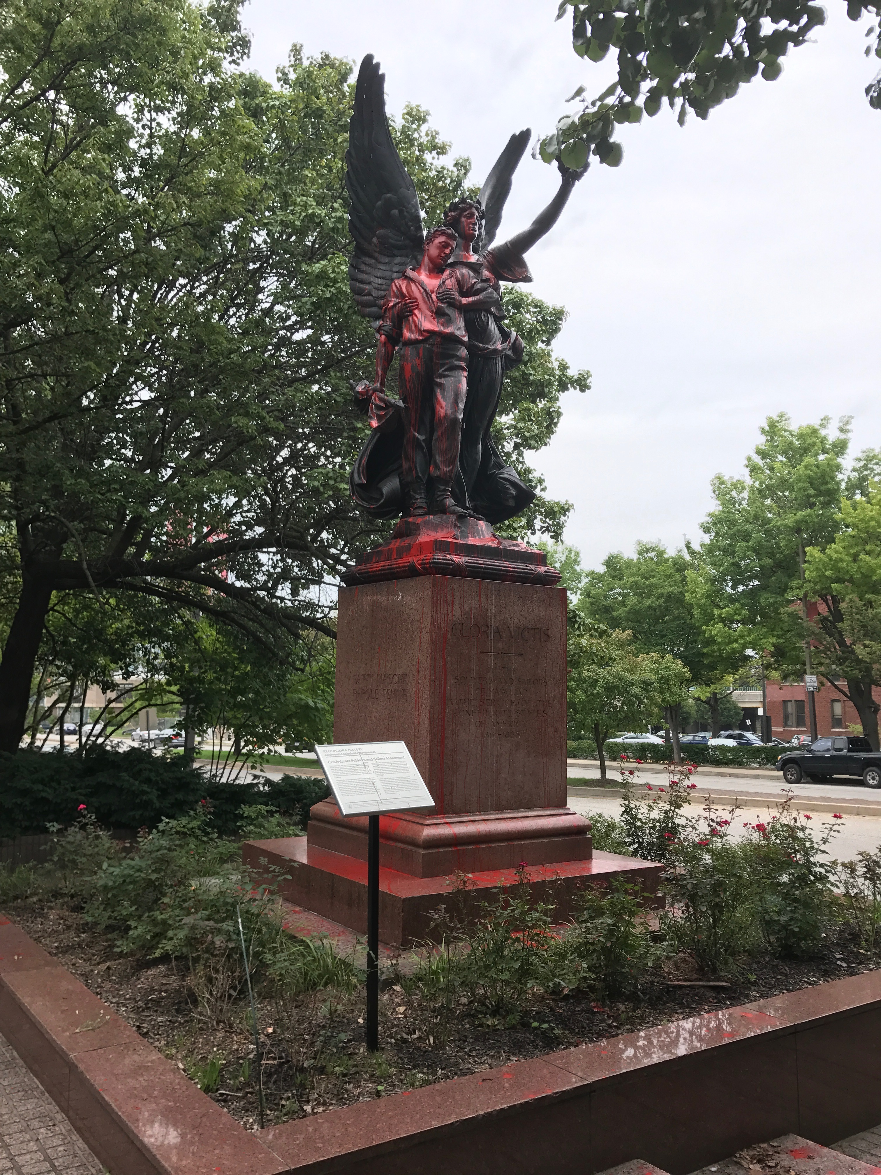 Photograph by Eli Pousson, 2017 August 14.